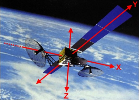 Roll, yaw and pitch axis orientation for a communication satellite. Source picture: Image:TDRS gen2.jpg Axis painted by Dantor, 2006